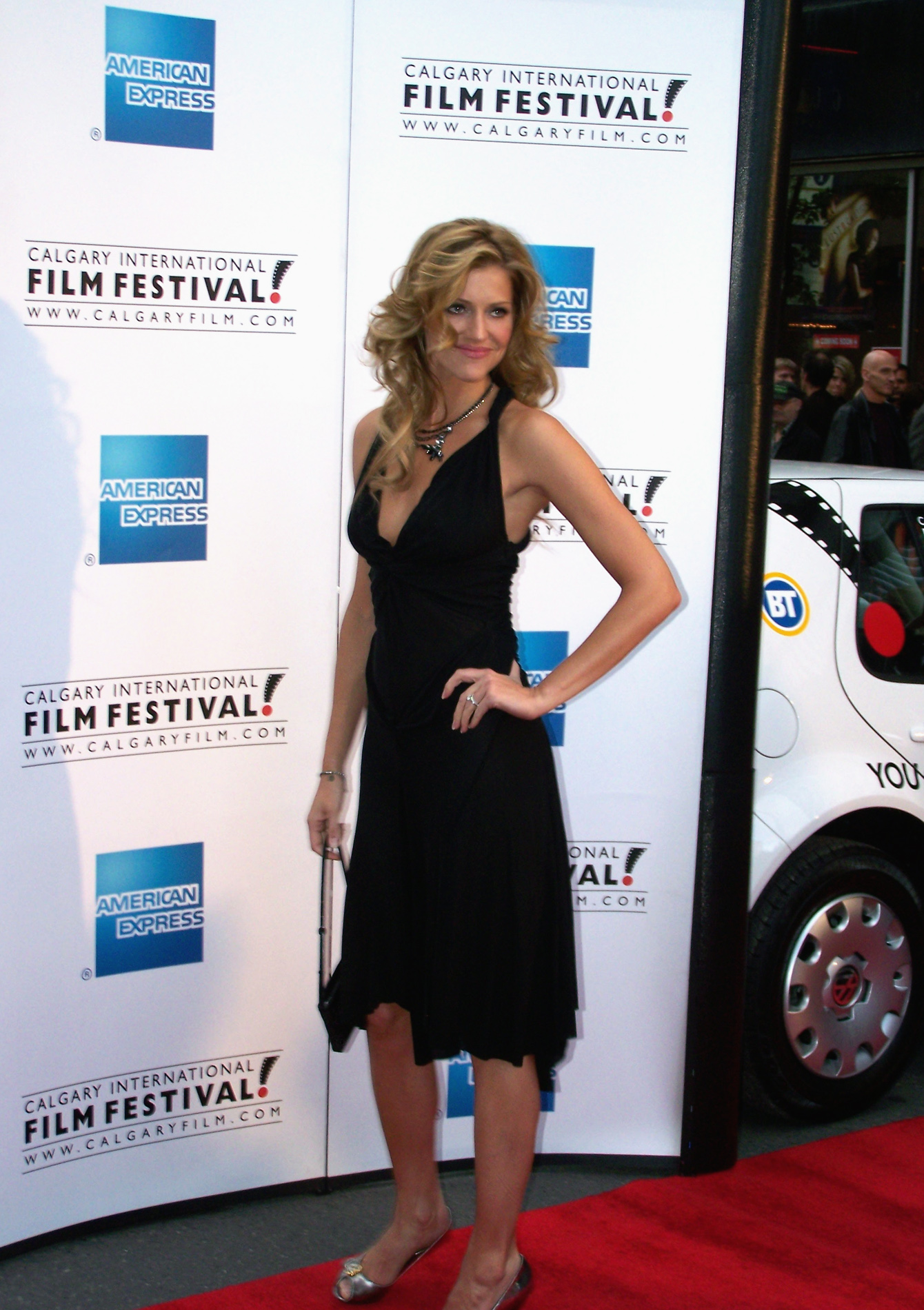 Tricia Helfer poses for pictures on the red carpet during the Calgary International Film Festival. Helfer was attending the gala showing Walk All Over Me, which she stars in. The film was shown at the Uptown Stage at 612 8th Avenue SW, Calgary, Alberta, Canada.